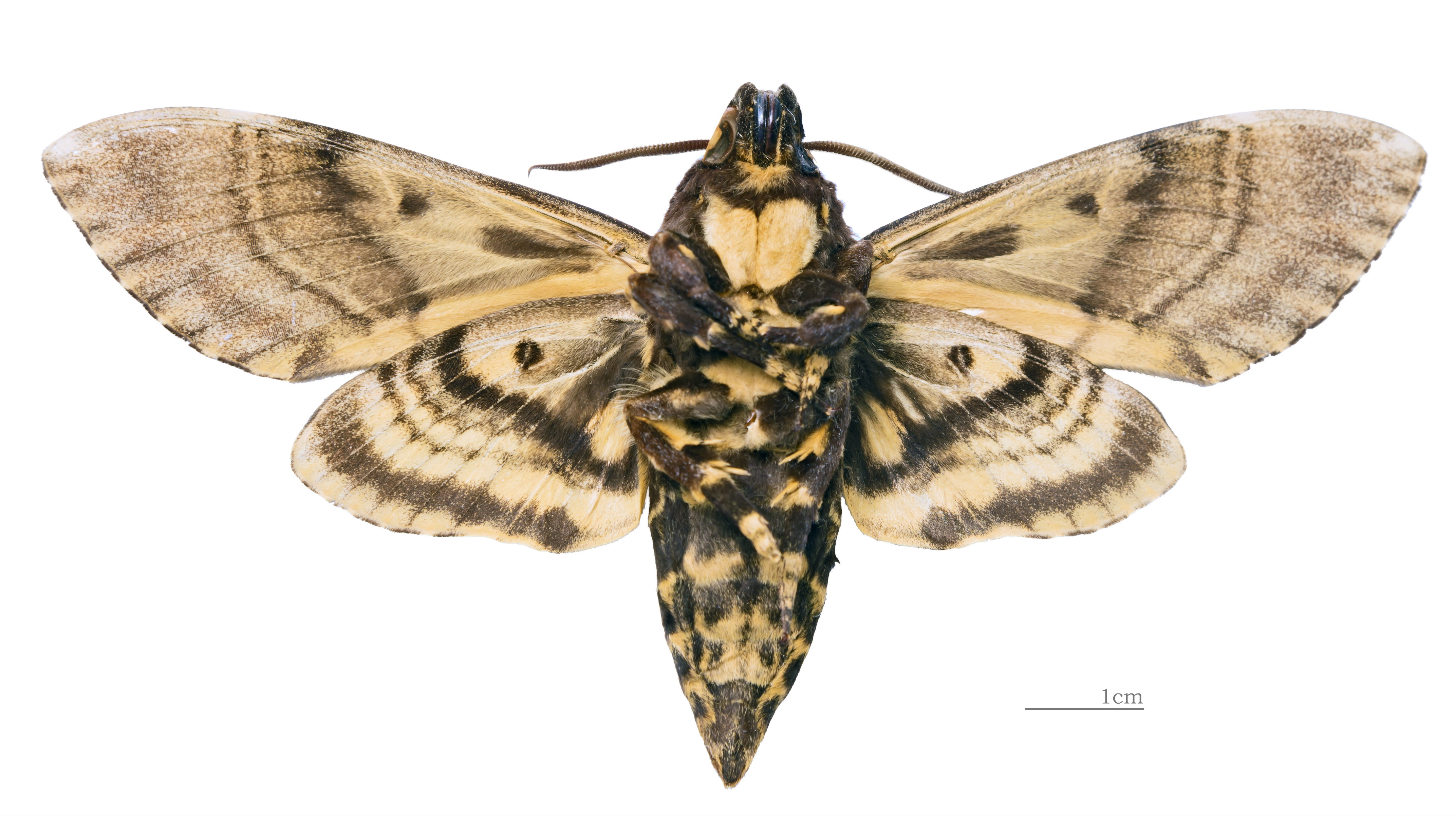 Acherontia lachesis - △ Ventral side Collection of the Mathematician Laurent Schwartz